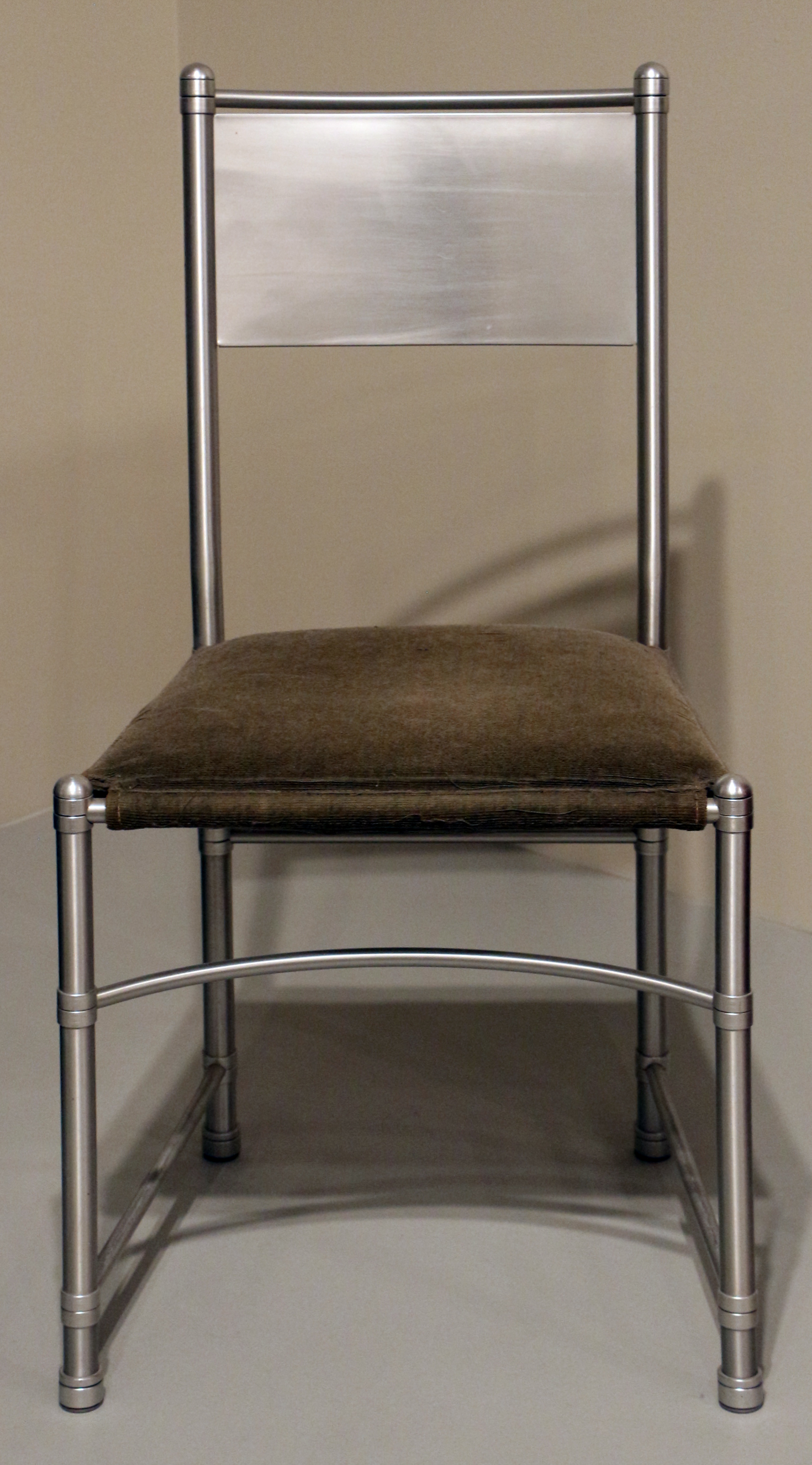 American furniture in the Art Institute of Chicago